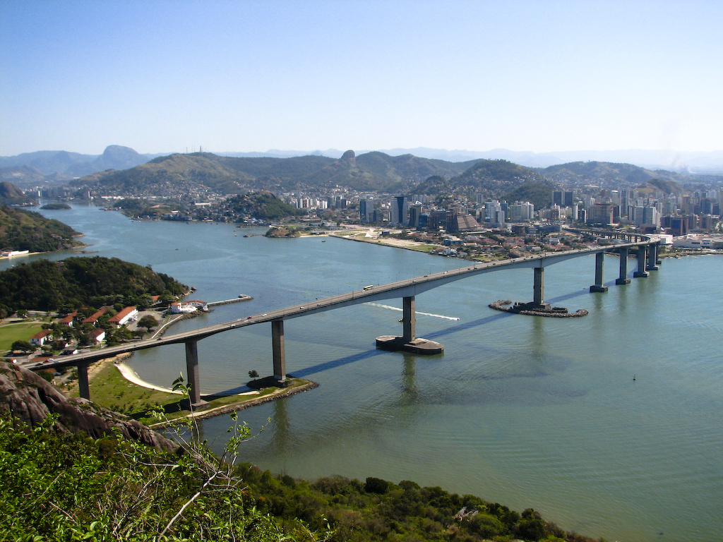 Terceira Ponte, Brazil